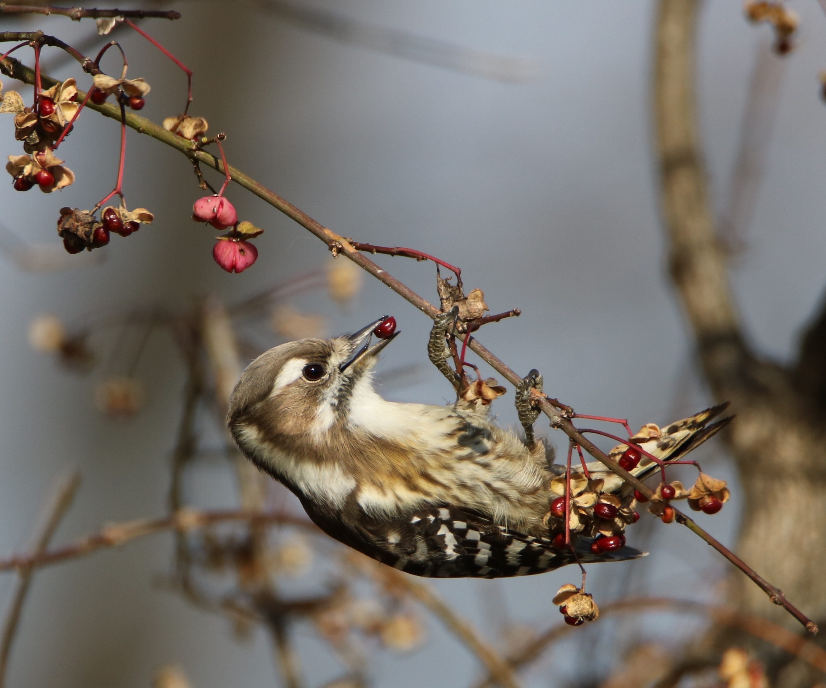 Yungipicus kizuki eating sed of Euonymus hamiltonianus in Aichi Prefecture, Japan.